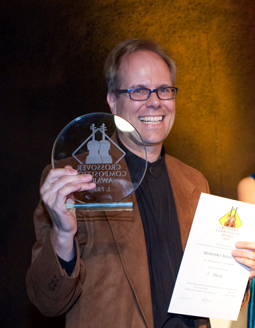 Crossover Composition Award 1. prize: Benedikt Brydern (USA)